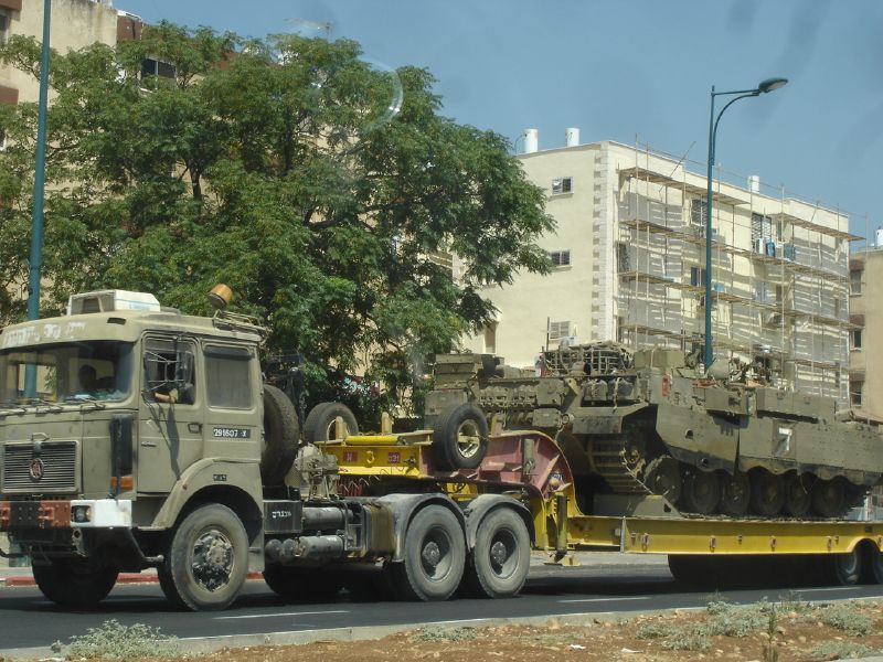 An Israeli tank on a flat bed trailer in Kiryat Shmona.